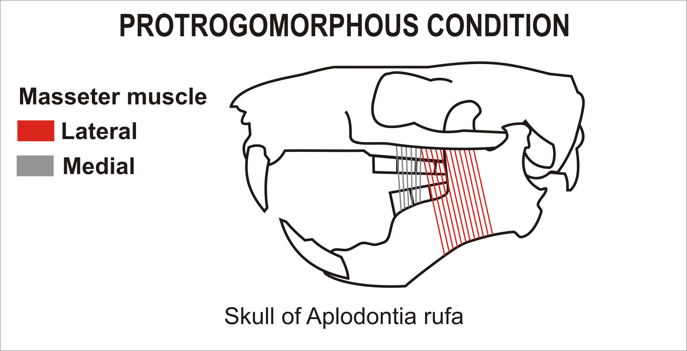 According to Romer, 1945